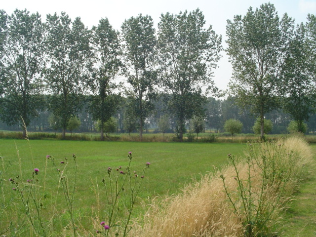 Poplarlandscape Veghel